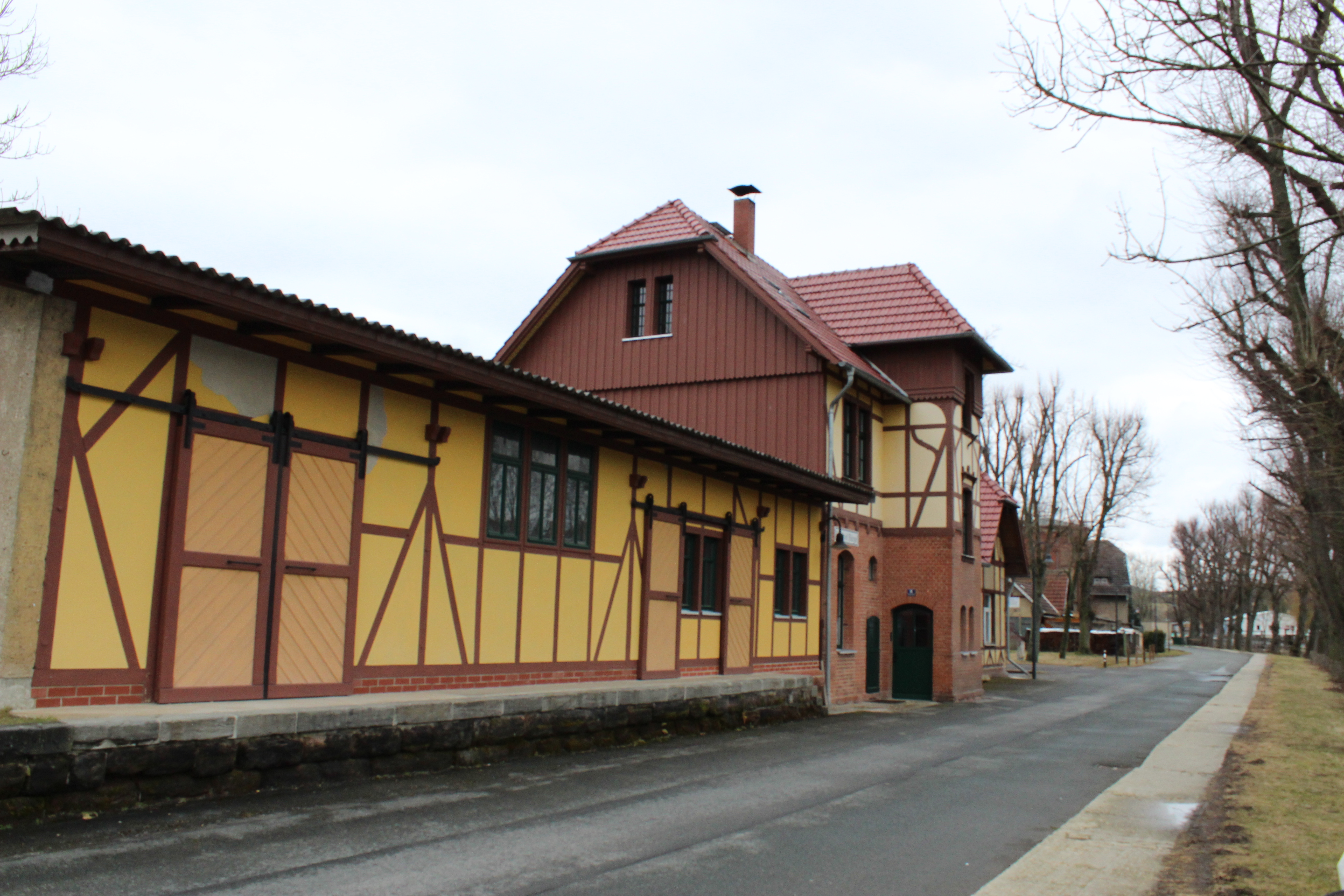 train station Bürgel